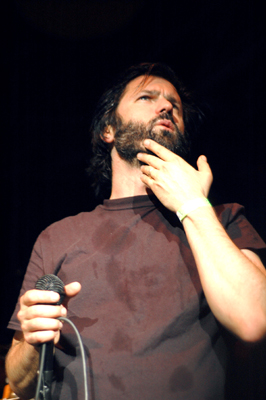 JOEY CAPE in Moscow. Lagwagon show 22.04.2007